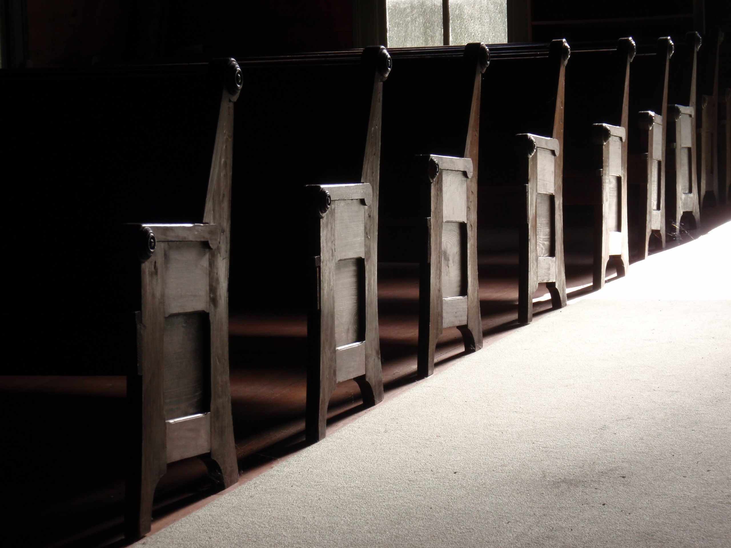 These are some of the old pews inside O'Kelly Chapel